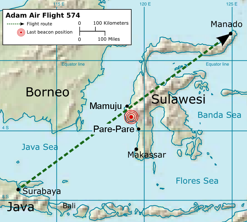 Adam Air Flight 574 flight route and its last beacon position before it was disappeared from the radar screen.